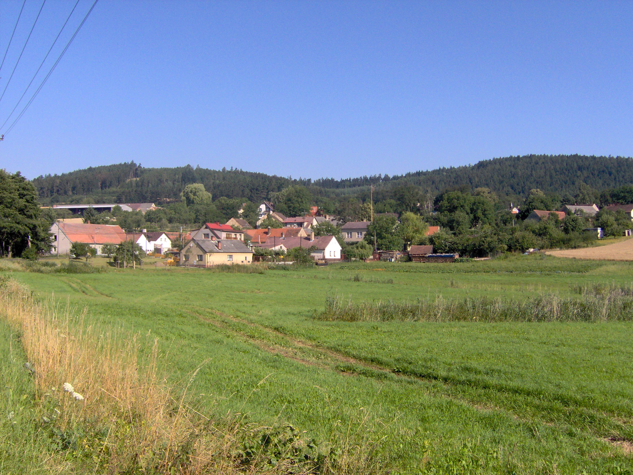 A wiev of Droužetice, Strakonice District, Czech republic